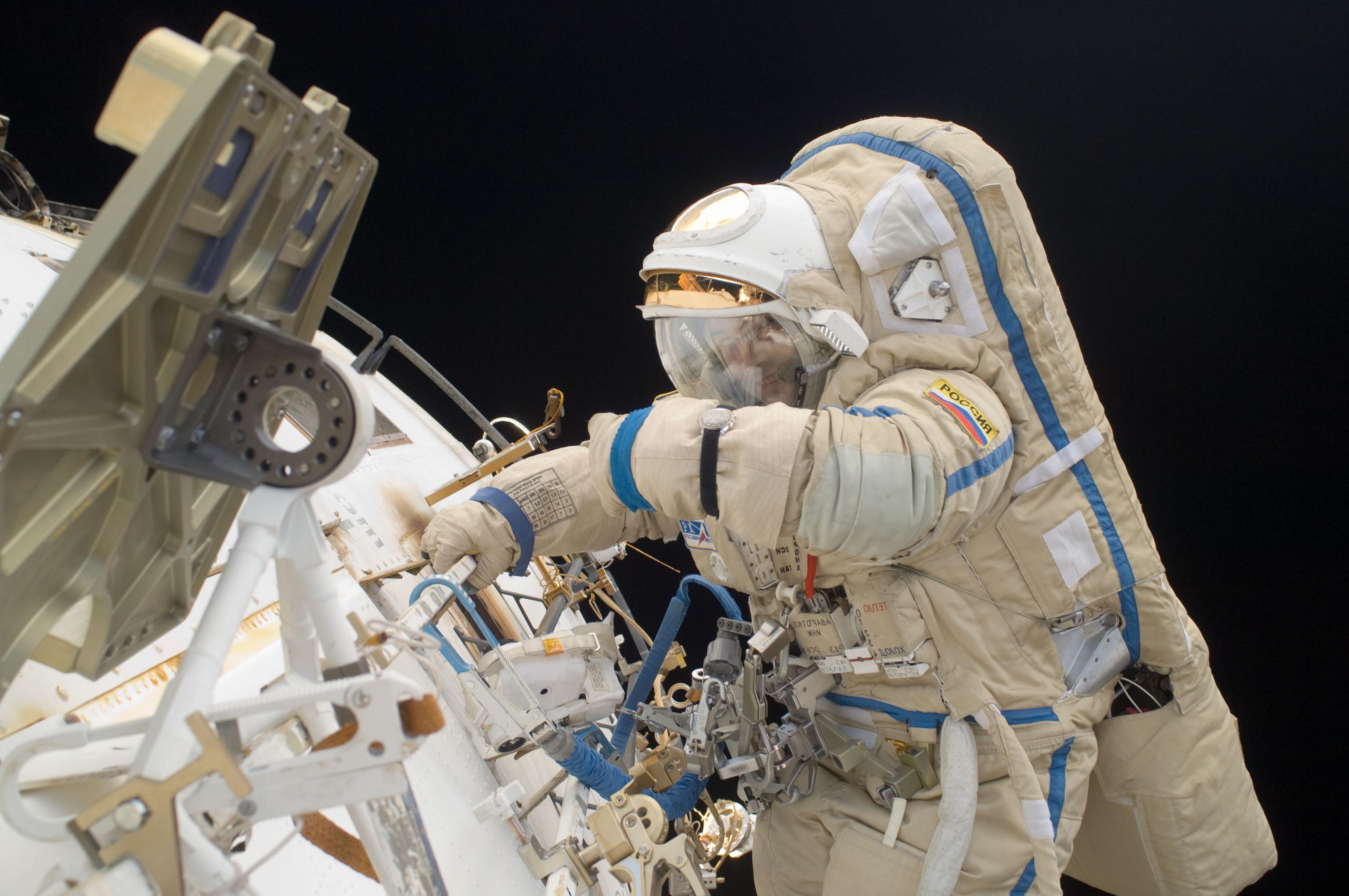 Cosmonaut Yury Lonchakov, Expedition 18 flight engineer, participates in a session of extravehicular activity (EVA) to perform maintenance on the International Space Station. During the 4-hour, 49-minute spacewalk, Lonchakov and astronaut Michael Fincke (out of frame), commander, reinstalled the Exposing Specimens of Organic and Biological Materials to Open Space (Expose-R) experiment on the universal science platform mounted to the exterior of the Zvezda Service Module. The spacewalkers also removed straps, or tape, from the area of the docking target on the Pirs airlock and docking compartment. The tape was removed to ensure it does not get in the way during the arrival of visiting Soyuz or Progress spacecraft.